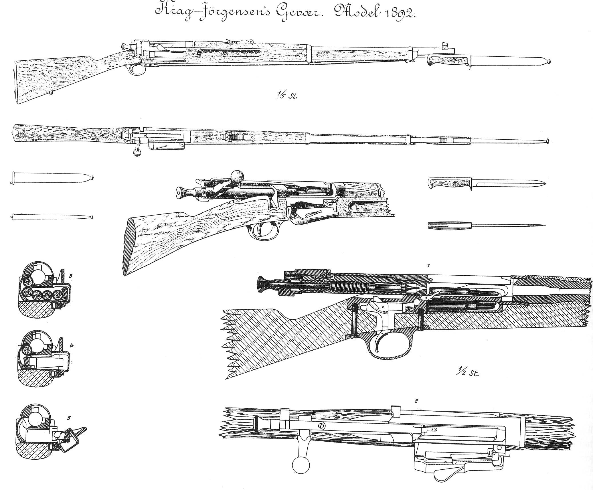 Drawing of the Krag-Jørgensen rifle as tested by the Norwegian Army in 1892. Drawing first appeared in a Norwegian publication ("Norsk Militært Tidskrift") in 1892.